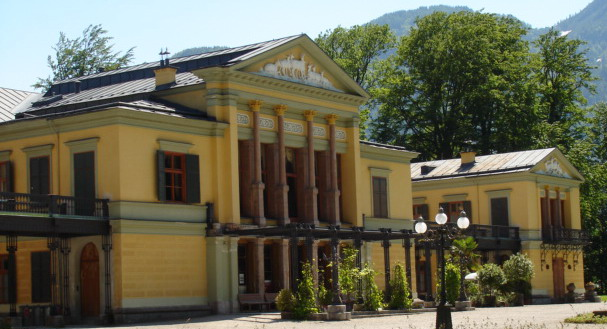 Austria, Bad Ischl, Kaiservilla